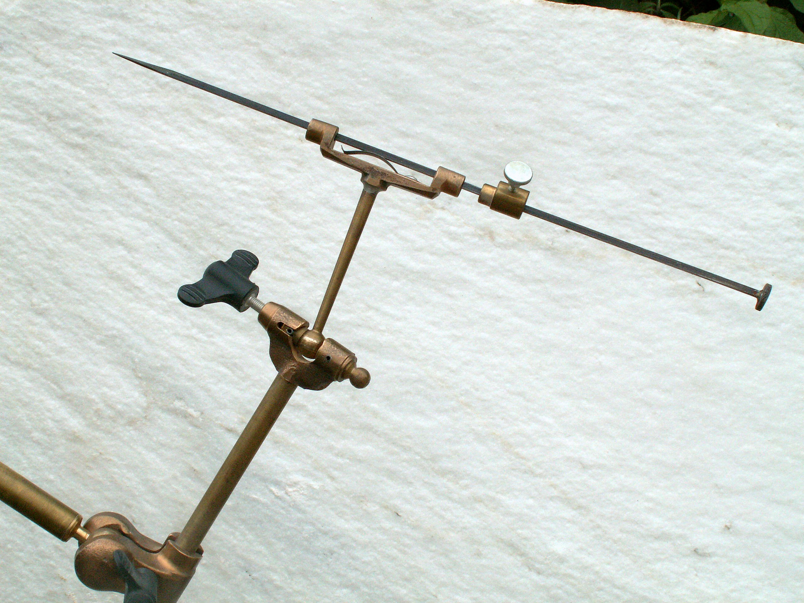 A pointing machine in close up: the needle